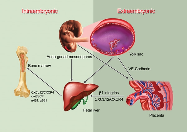 Definitive hematopoietic stem cell pools emerge from intra- (AGM) and extra- (yolk sac and placenta) embryonic hematopoietic sites. When the circulation is established and functional, HSCs start their migratory journey and colonize the placenta, followed by the fetal liver that becomes the major hematopoietic organ until the bone marrow colonized by HSCs. The adhesion molecule VE-cadherin expression has been suggested to participate in HSC/progenitor migration but there is no functional data about the molecular mediators of HSC migration in the embryo. The colonization of the fetal liver and the bone marrow are dependent on β1 integrins and the CXCL12/CXCR4 chemokine/receptor axis.